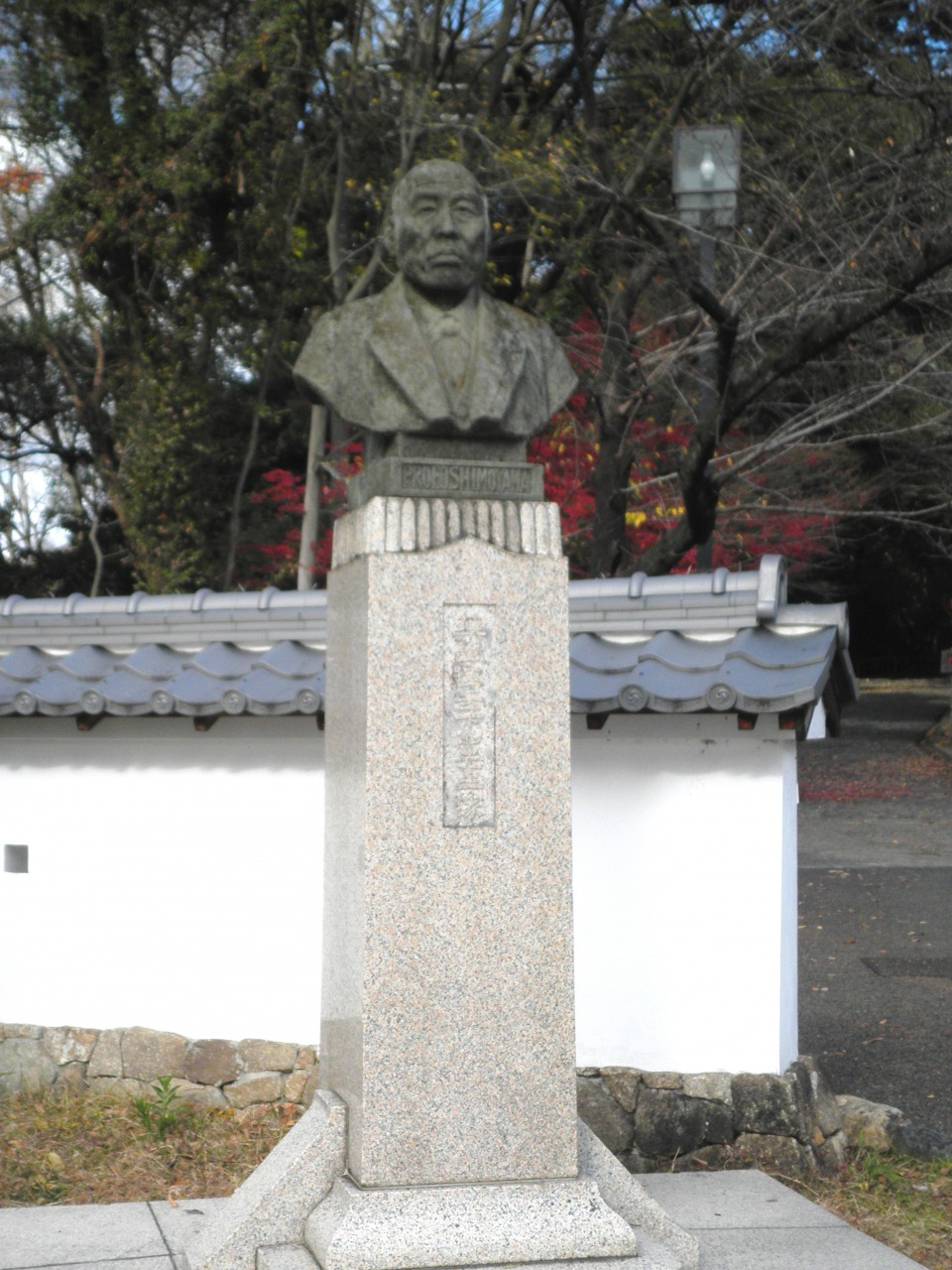 The bust of Shimoyama Junichirō in front of Inuyama Castle.